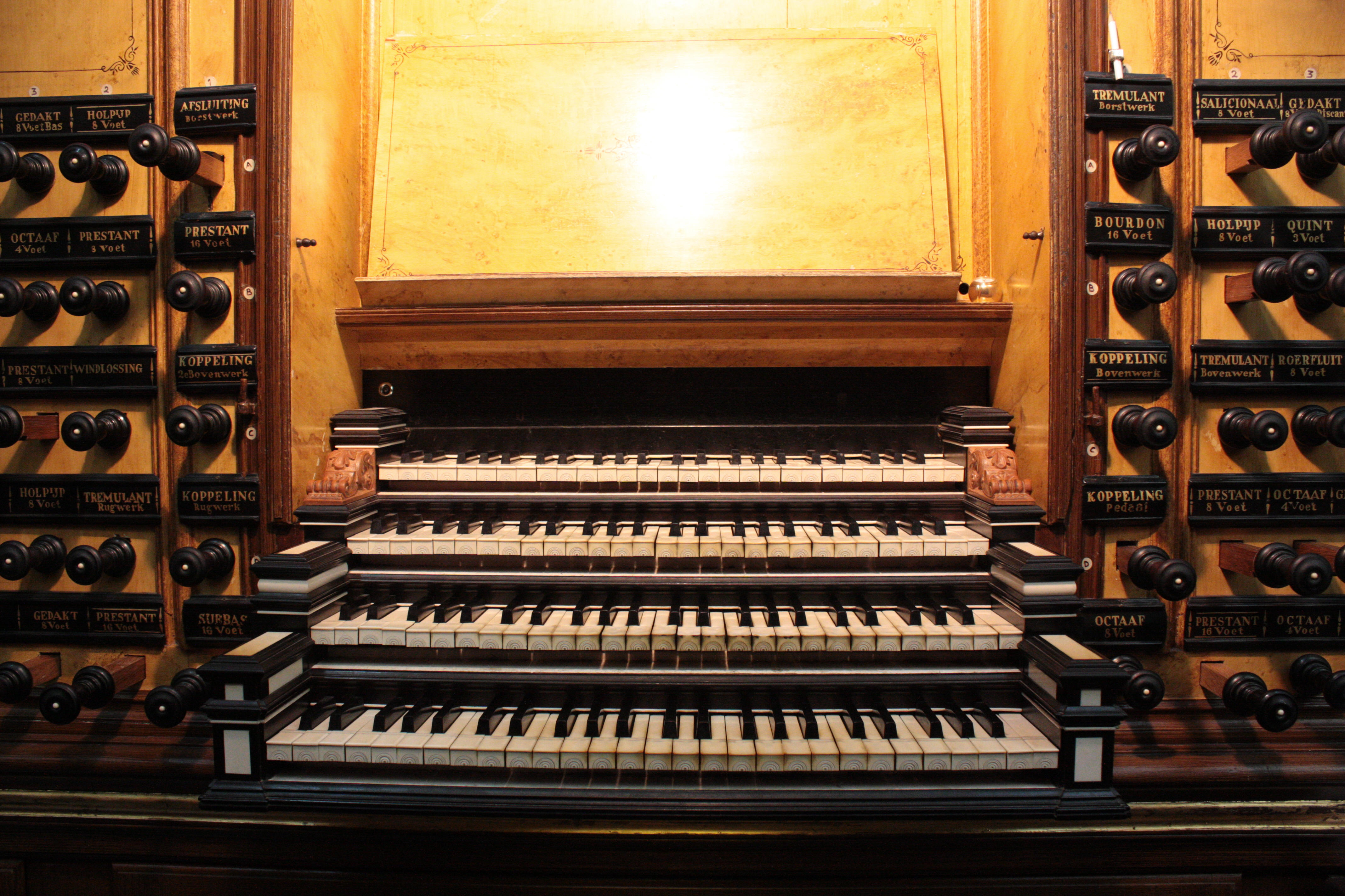 Organ console of the Hinsz organ in Kampen, Bovenkerk